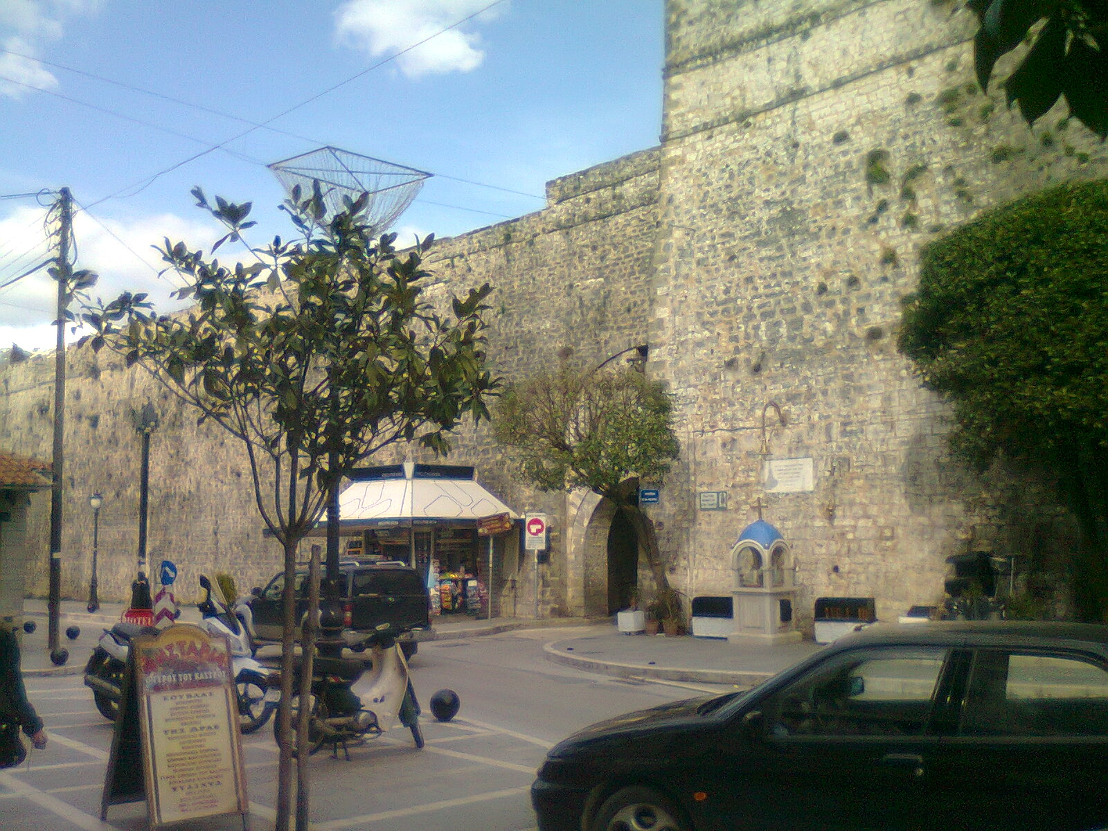 Ioannina Castle